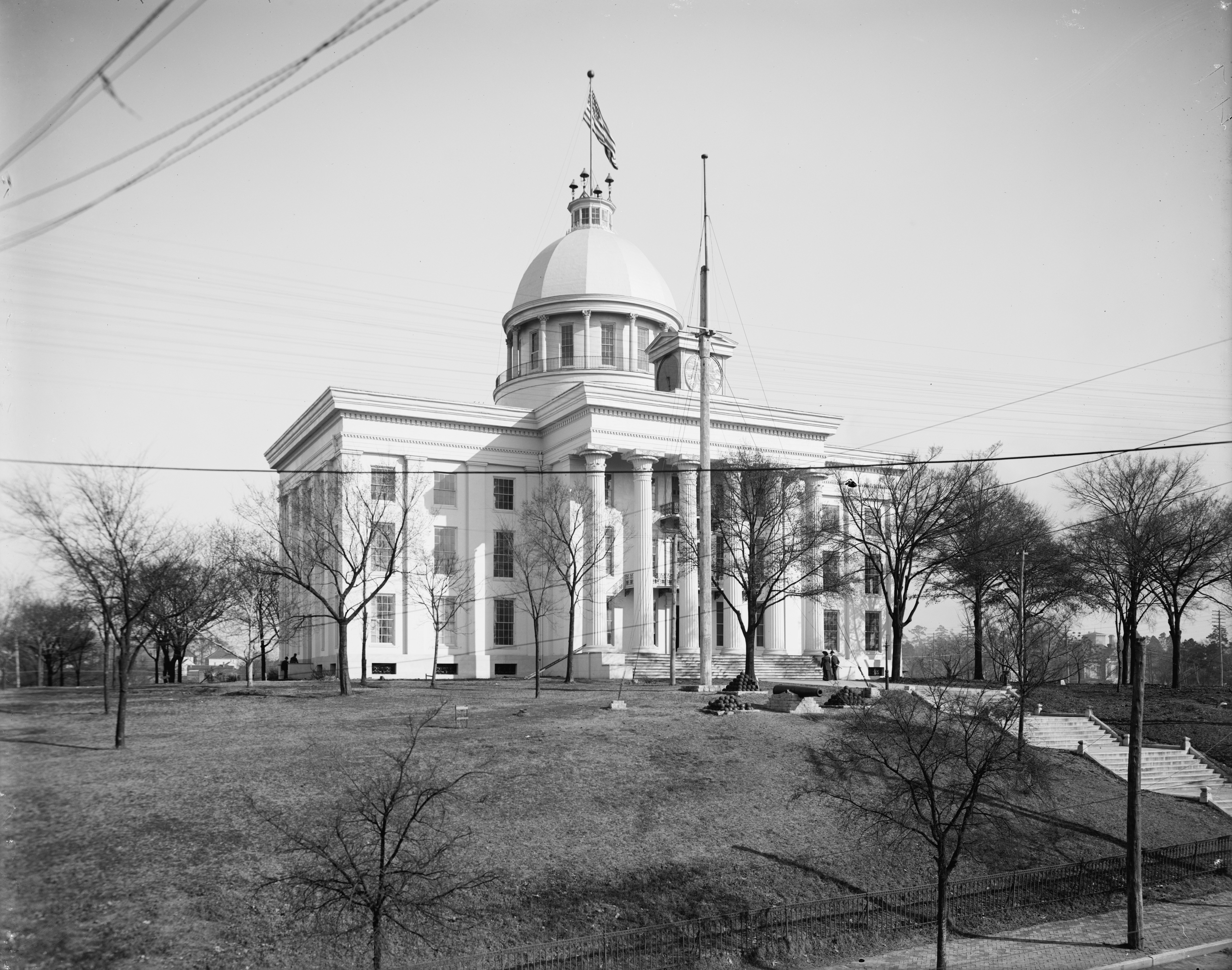 The Capitol, Montgomery, Ala. (Alabama State Capitol in Montgomery in 1906).